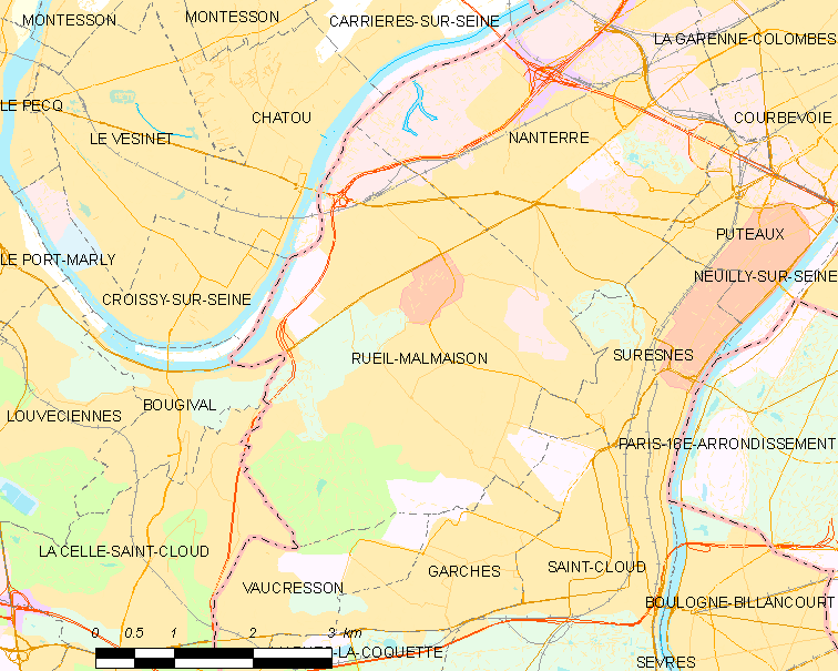 Map of French municipality Rueil-Malmaison